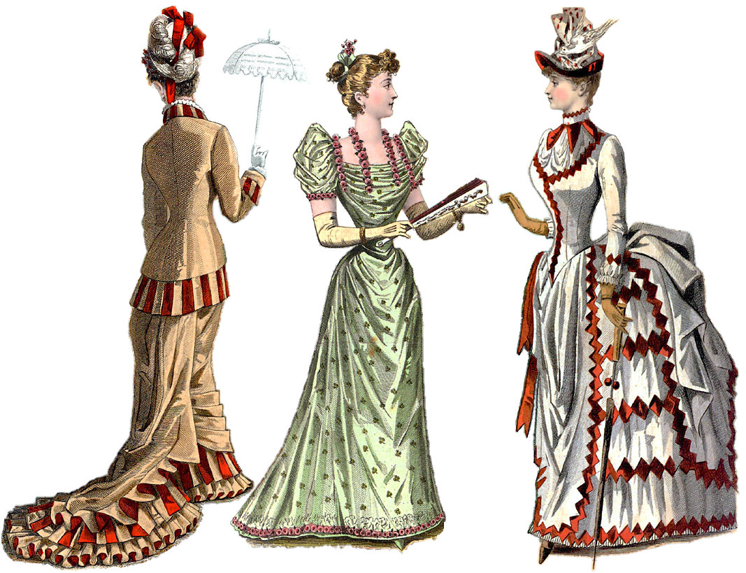 Style overview taken from 1880s fashion plates (a composite of what were originally parts of three separate plates) Left: early 1880's daywear (continuing the tight dress styles of the late 1870's, with train; compare this 1882 painting) Center: late 1880's eveningwear (anticipating the transition to the 1890's) Right: mid 1880's daywear (with bustle)